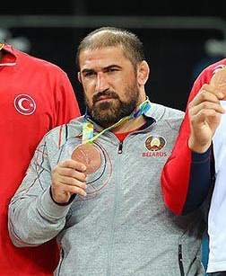 2016 Summer Olympics, Men's Freestyle Wrestling 125 kg Podium